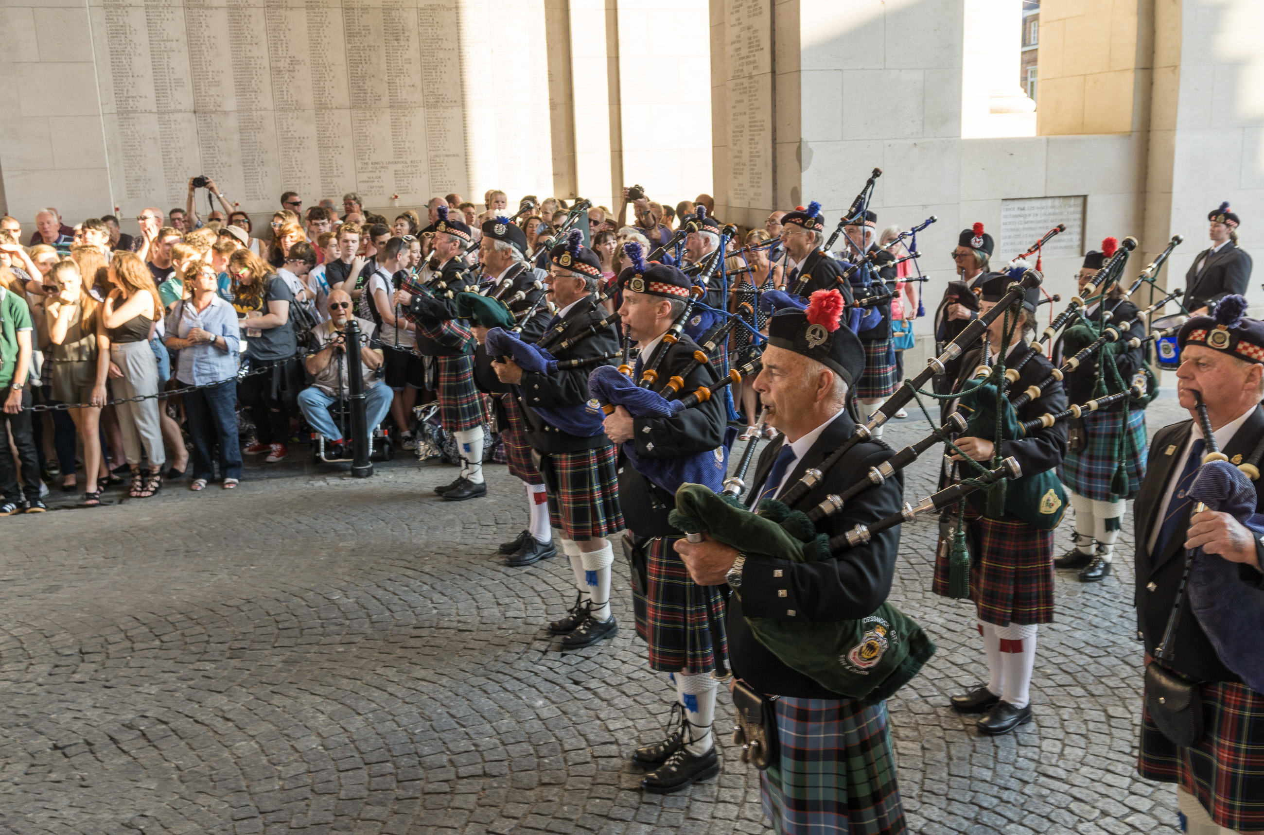 In July 2016, the Cessnock (Australia) Pipes & Drums played during the Last Post ceremony at Menin Gate in Ypres, Belgium.